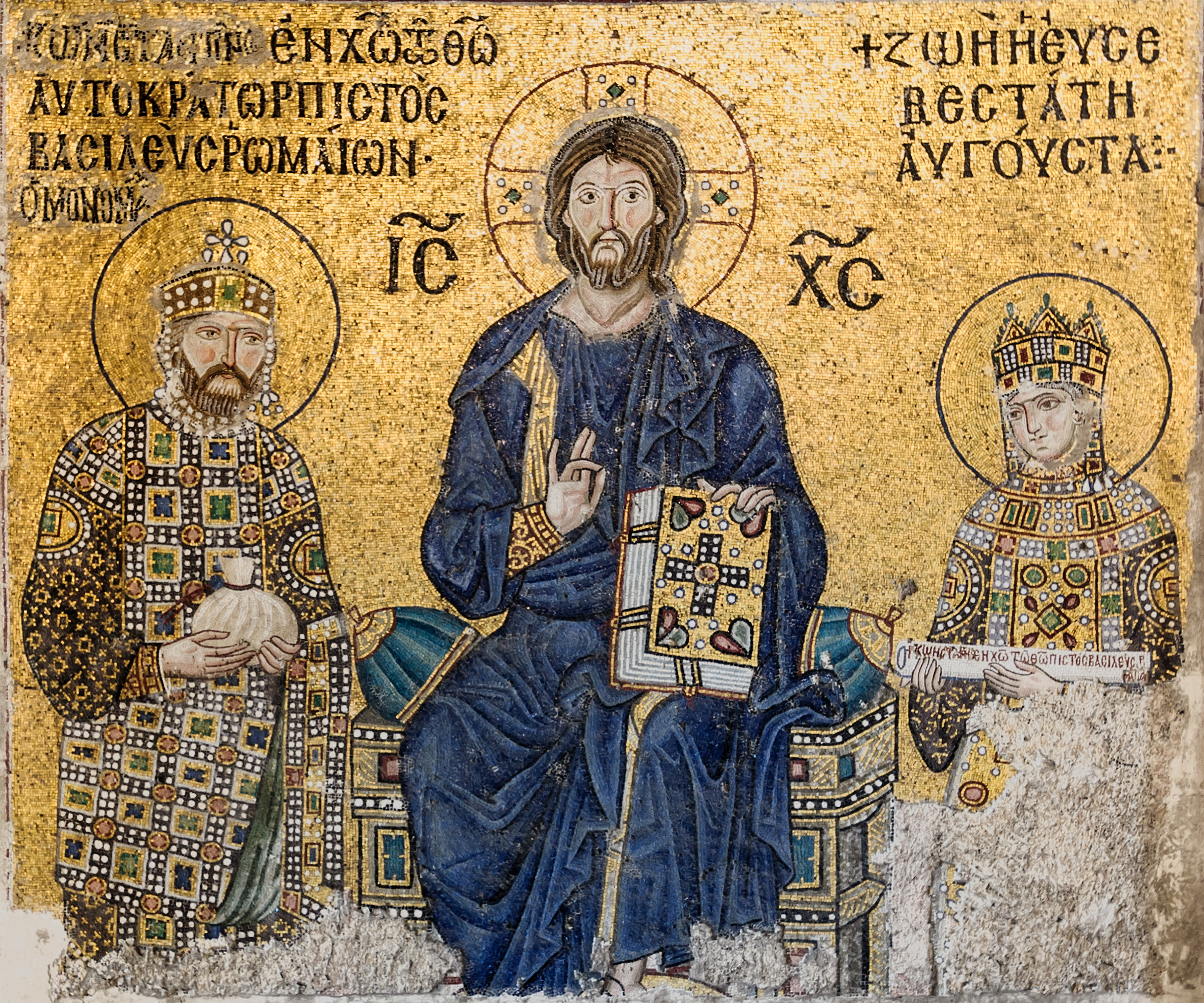 The Empress Zoe mosaics (11th-century) in Hagia Sophia (Istanbul, Turkey) Christ Pantocrator is seated in the middle. On his right side stands emperor Constantine IX Monomachos; on his left side, empress Zoe.